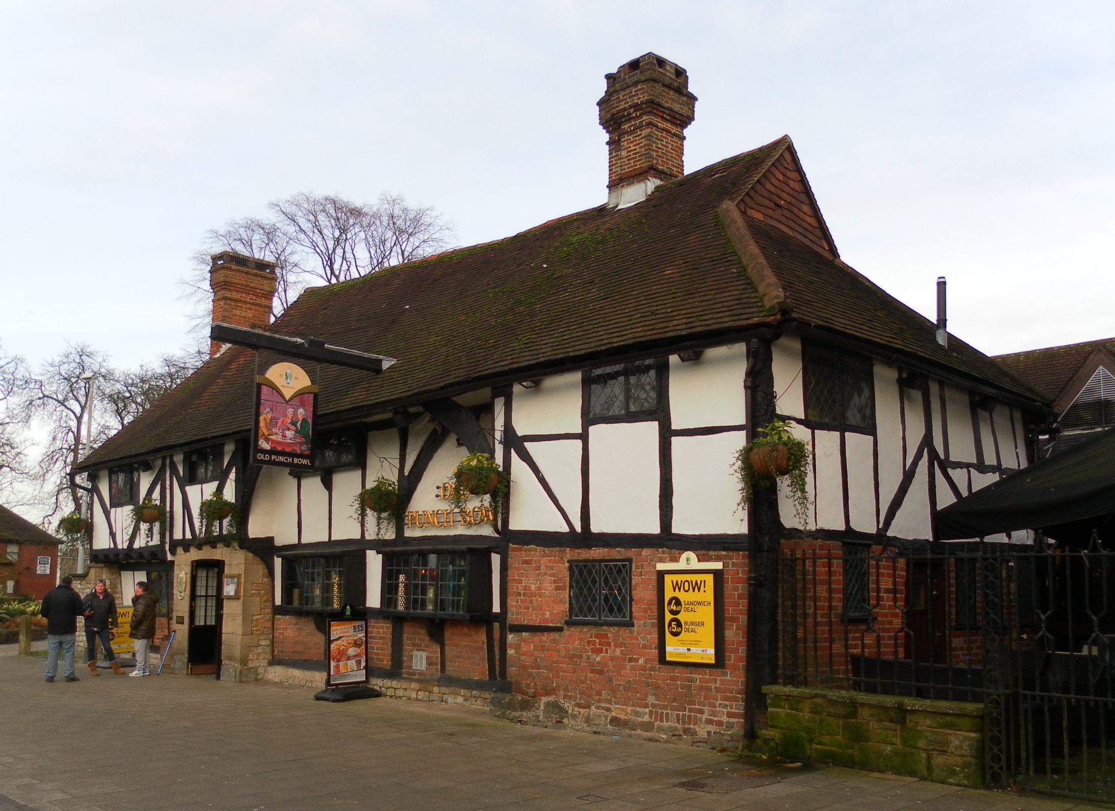 Old Punch Bowl, High Street, Crawley, West Sussex, England. A 15th-century timber-framed hall-house; now a pub. Listed at Grade II* by English Heritage (IoE Code 363350)